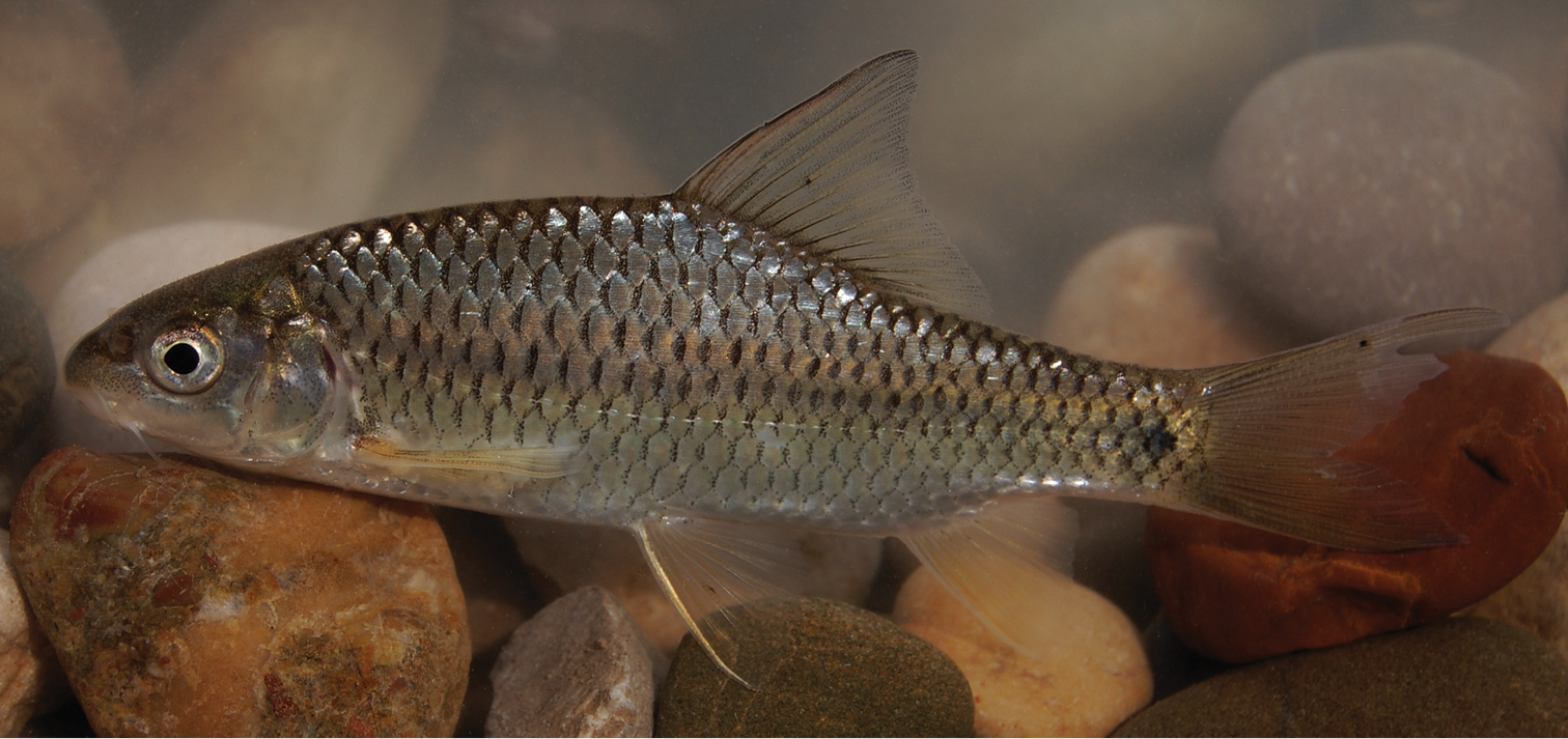 Carasobarbus kosswigi, live specimen from Rūdkhāneh-ye Karkheh.